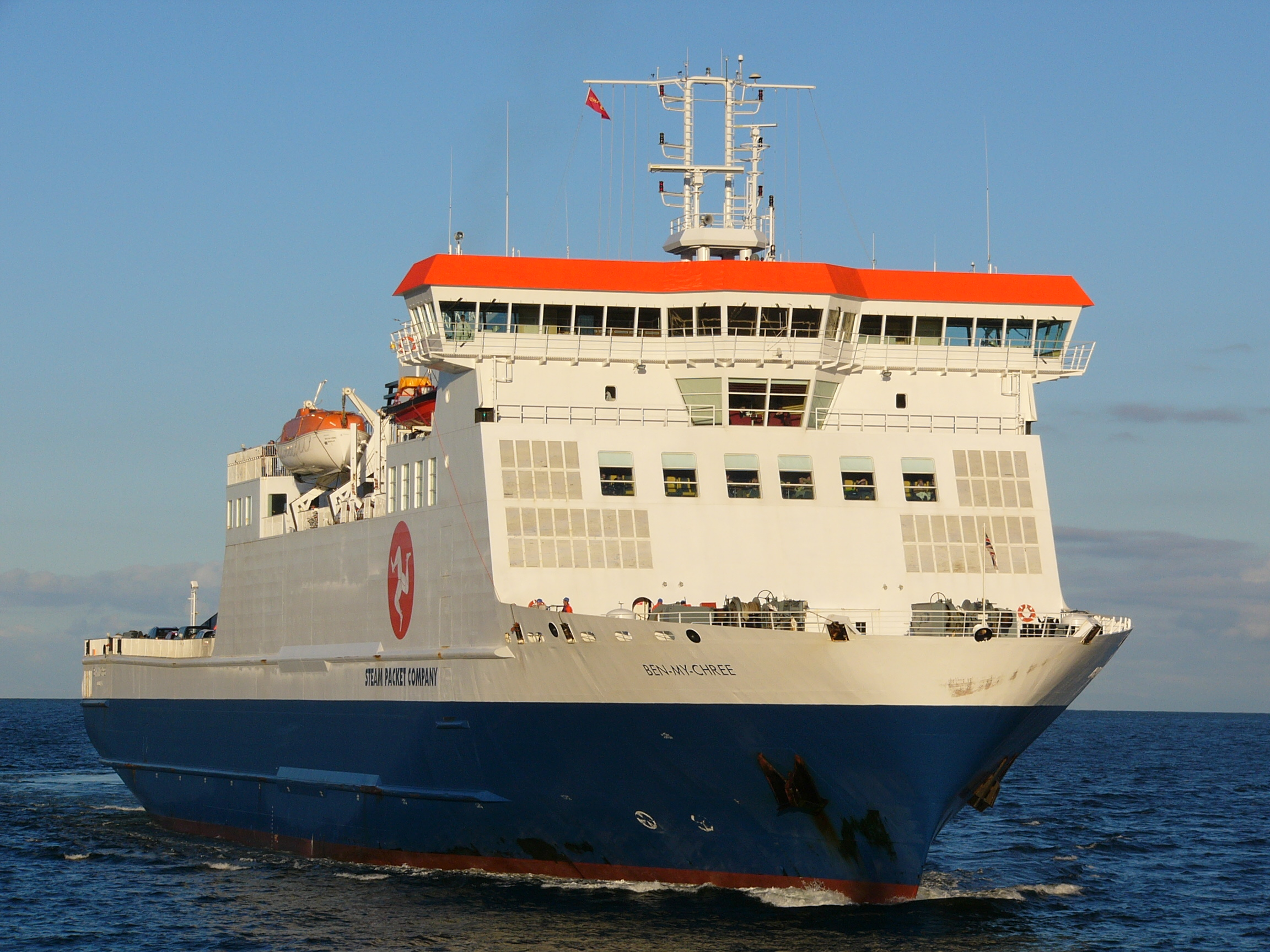 Ben-My-Chree arrives in Douglas, Isle of Man